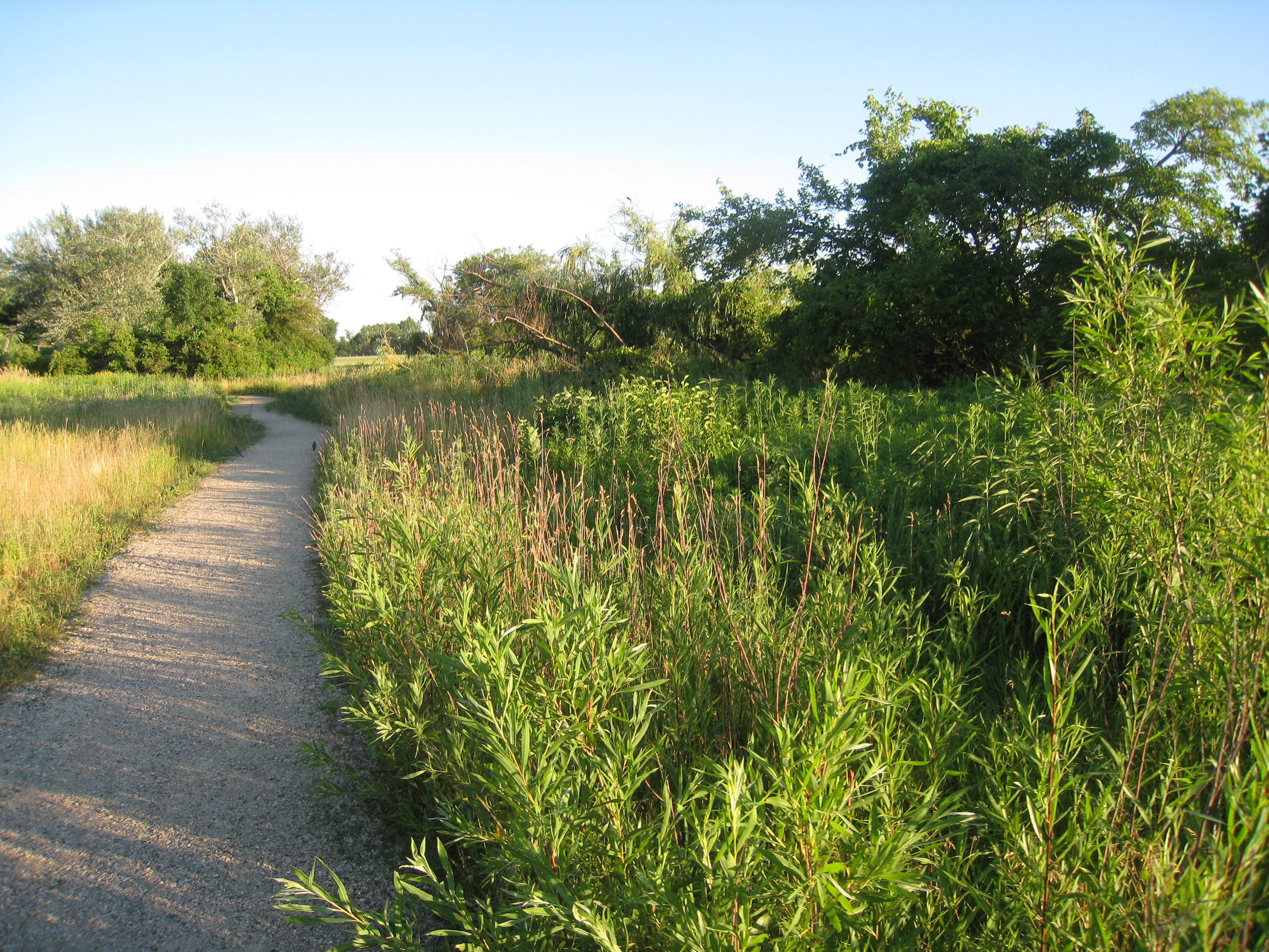 Jackson Park Bird Trail, Chicago IL